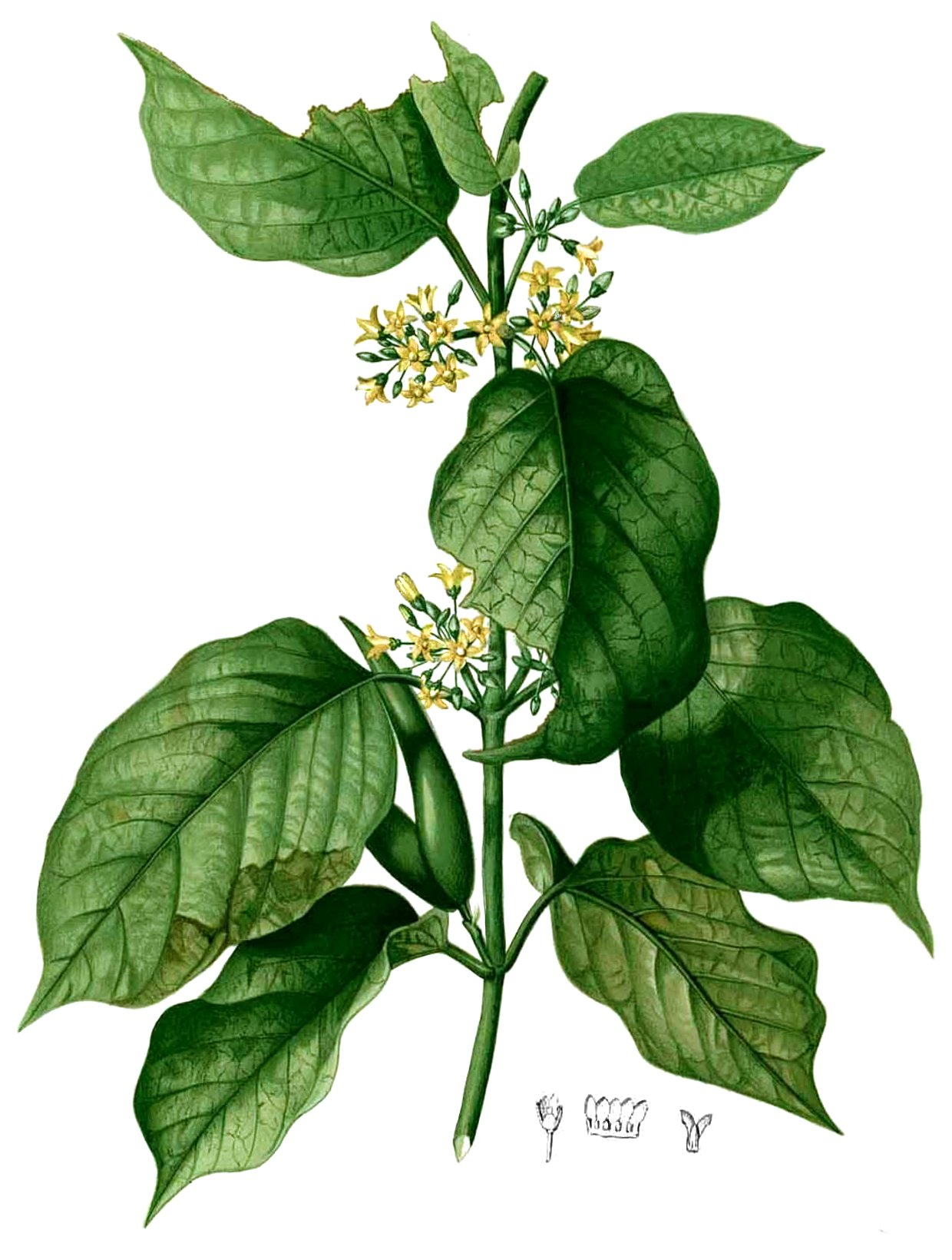 Gymnema inodorum Plate from book